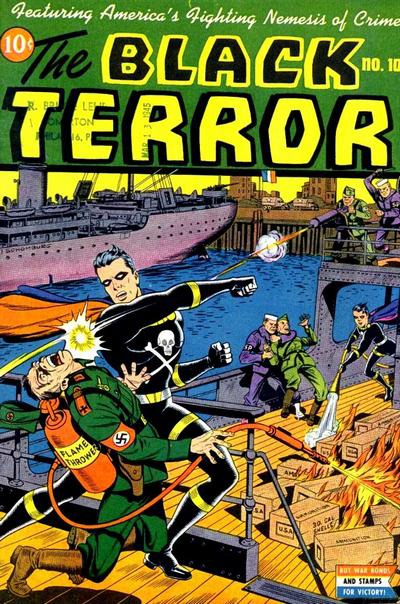 Cover of The Black Terror #10 May 1945